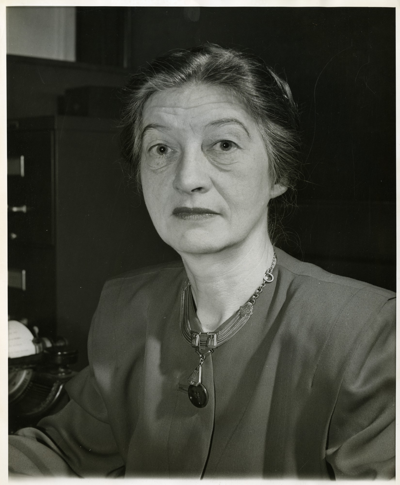 Born in Nova Scotia, the journalist Catherine MacKenzie (Bierstadt) (ca. 1894-1949) began working for the New York Times in 1925. From 1939 until her death, she wrote the newspaper's popular "Parent-Child" column. In 1948, she was the co-recipient (with Lawrence K. Frank) of the Albert and Mary Lasker Foundation Award for contributions to adult education on mental illness issues. She was married to Edward Hale Bierstedt